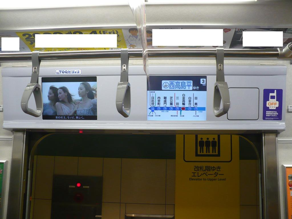 An LCD passenger information display inside Tokyu 5080 series EMU car 5185